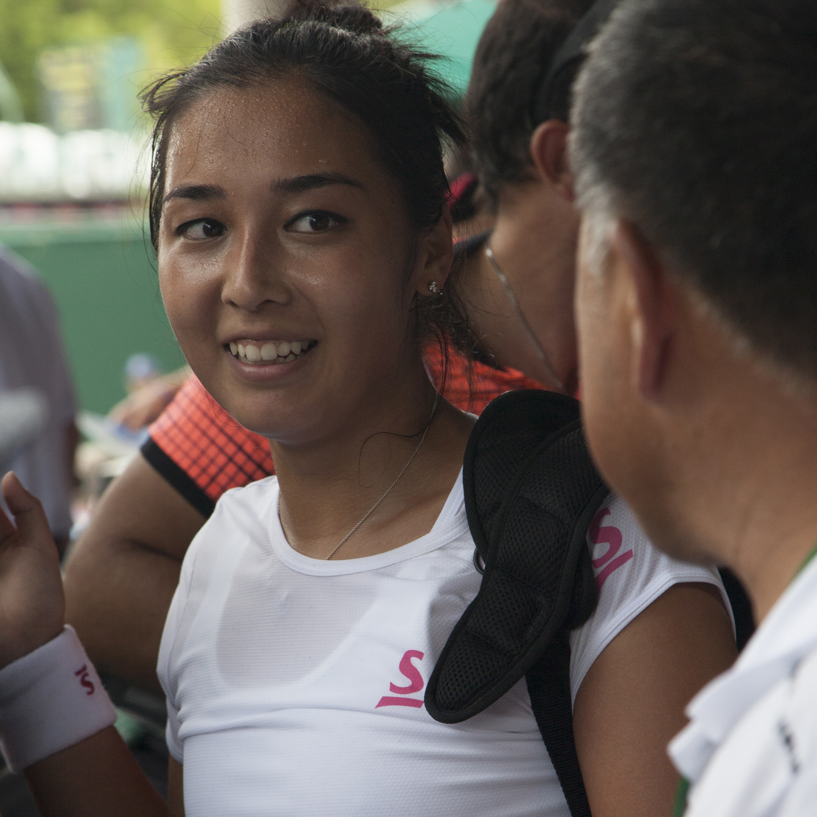 Zarina Diyas and Coach (Alan Ma) game plan worked!!! Wimbledon 2017